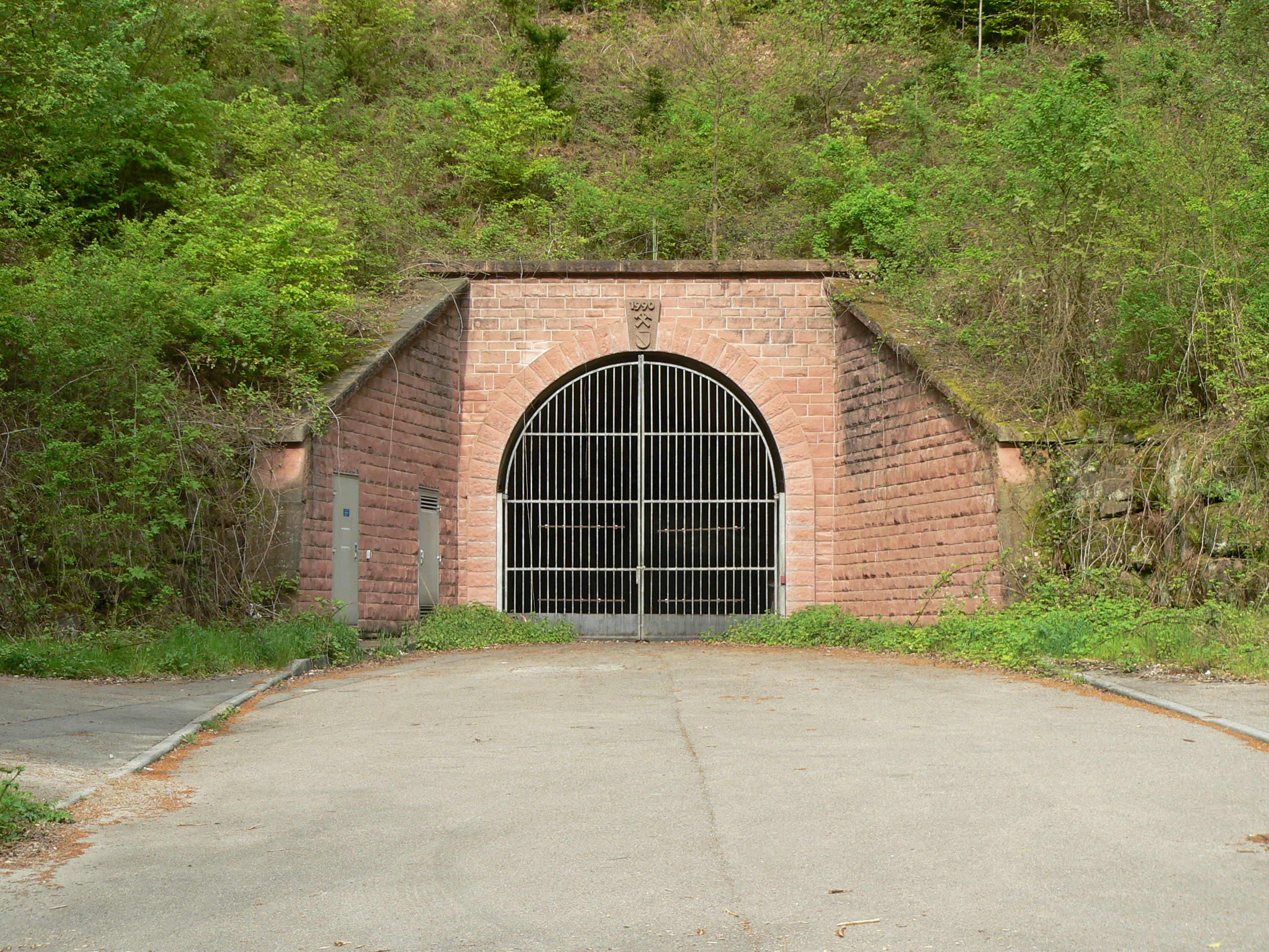 Fluorspar and baryte mine Käfersteige near Pforzheim Germany. Tunnel from 1990.